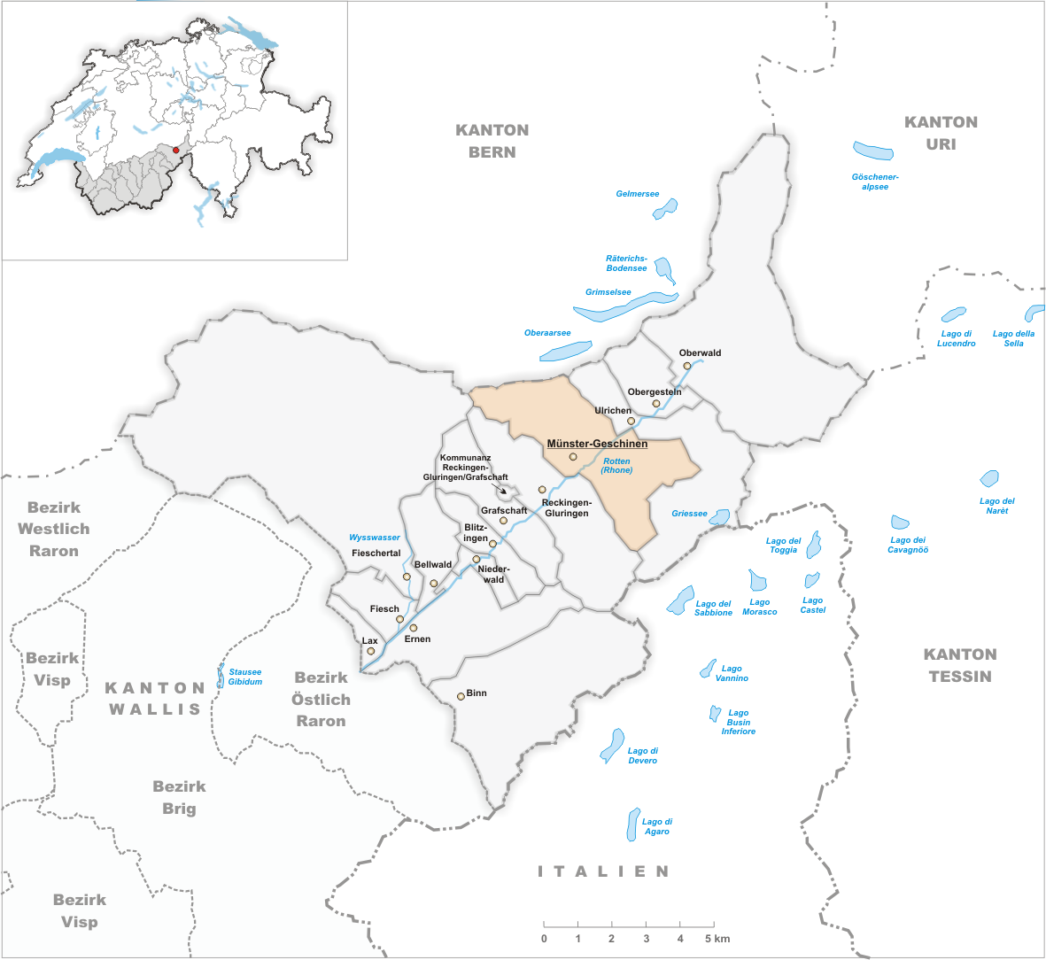 Municipality Münster-Geschinen